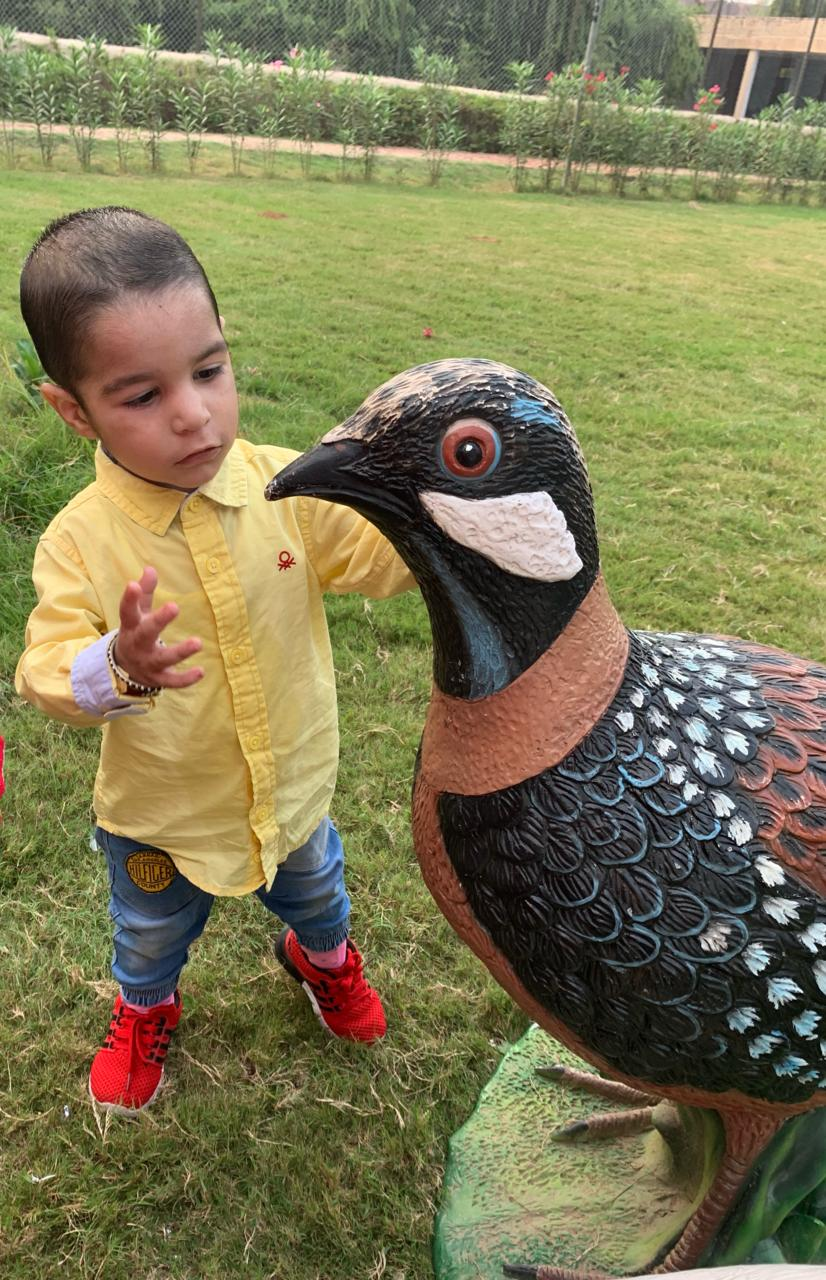 A child getting intrigued by looking at a model of Black Francolin.